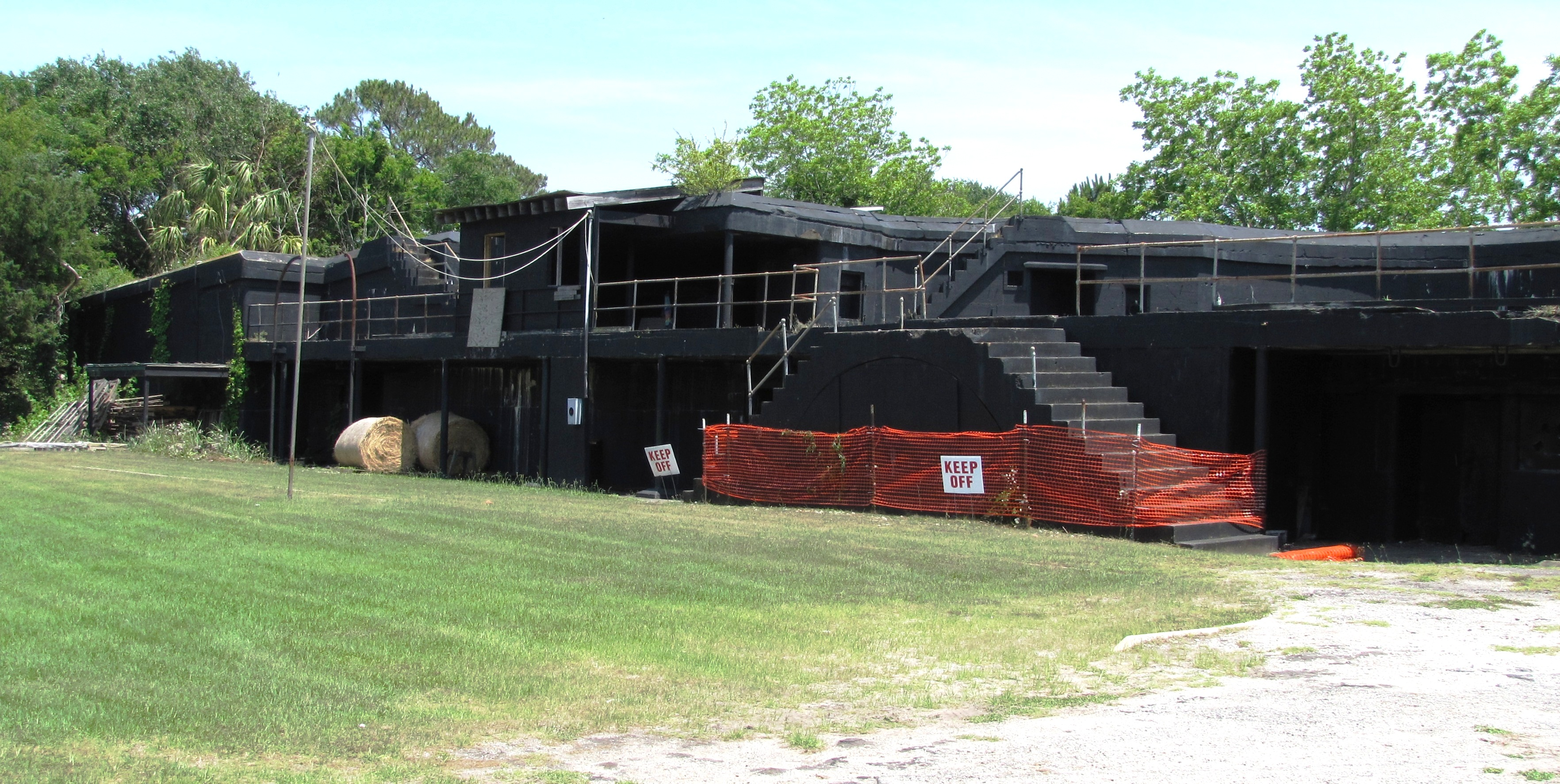 Battery Thomson on Sullivan's Island in Charleston County, South Carolina, USA. Built 1906-1909, this structure is now listed on the National Register of Historic Places.